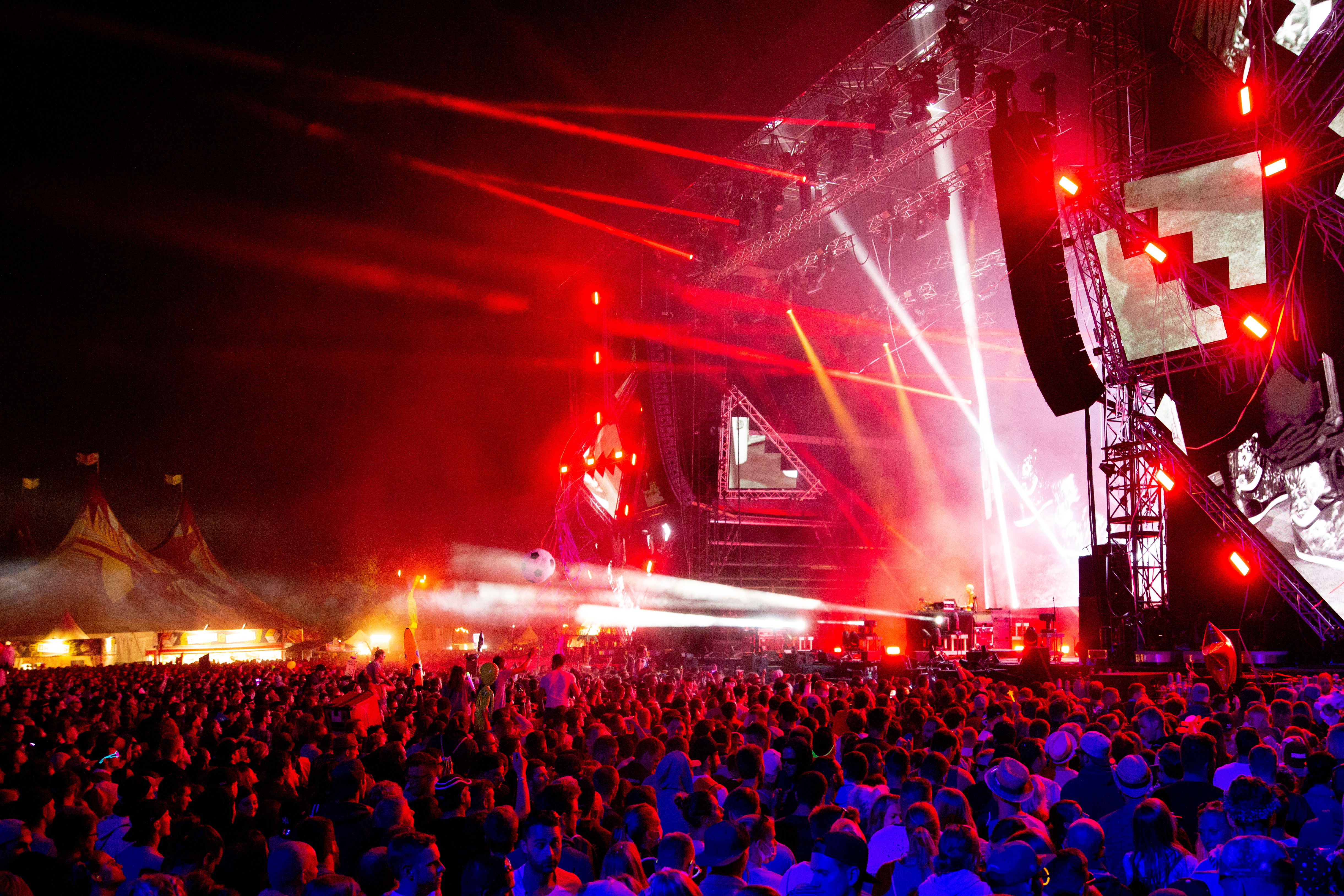 Paul Kalkbrenner at SonneMondSterne 2018, Mainstage